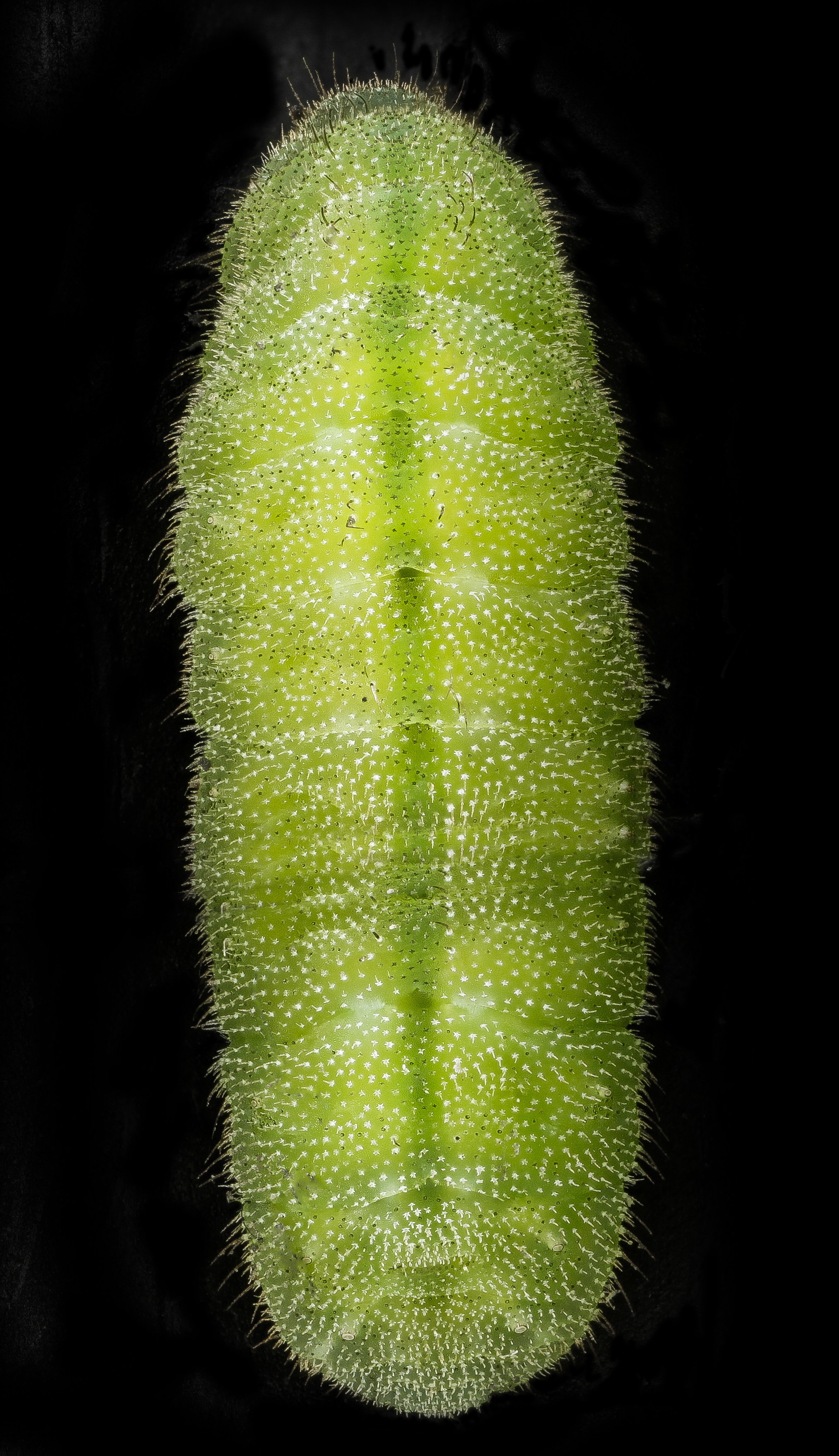 Catterpillar of Endangered Karner Blue butterfly Plebejus melissa samuelis, almost ready to pupate ...a.k.a. a fatty